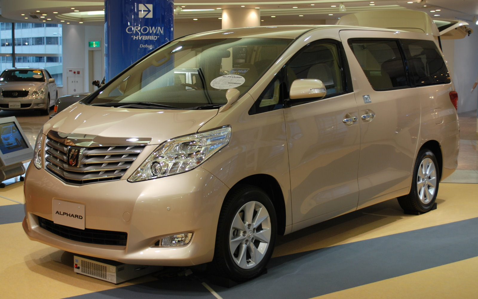 2nd generation Toyota Alphard (2008 - )